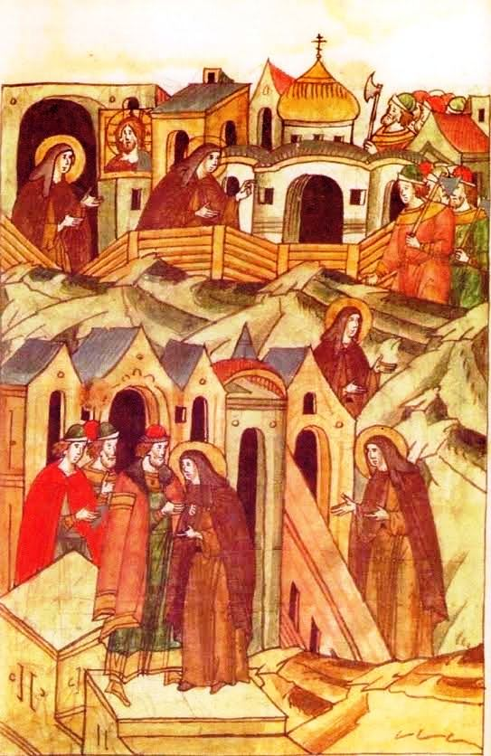 Vojšalk Founded a Monastery (around 1260). The miniature from the Illustrated Chronicle of Ivan the Terrible, 16 c. Vojšalk was the Grand Duke of Lithuania in 1264 — 1267, he was son of Mindouh, the Grand Duke of Lithuania.